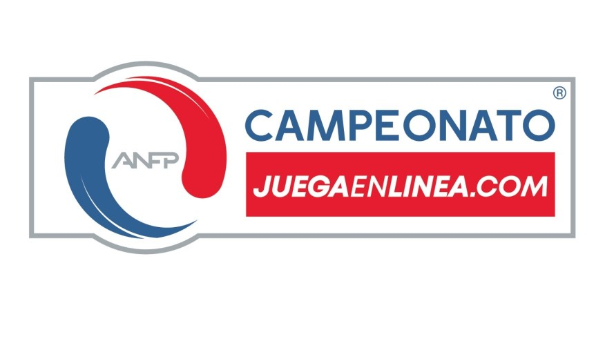 Logo of the Championship Primera B de Chile